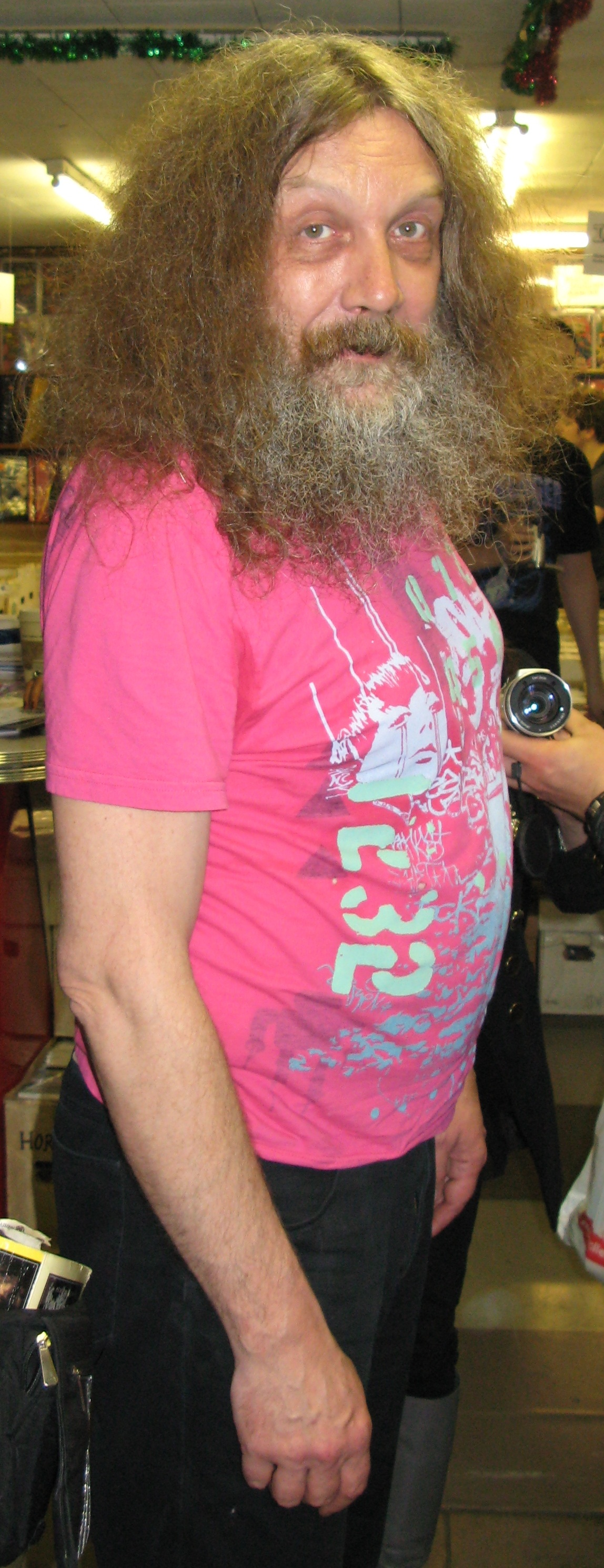 Alan Moore signing at Orbital Comics, May 25th 2008 (Covent Garden, London, England).